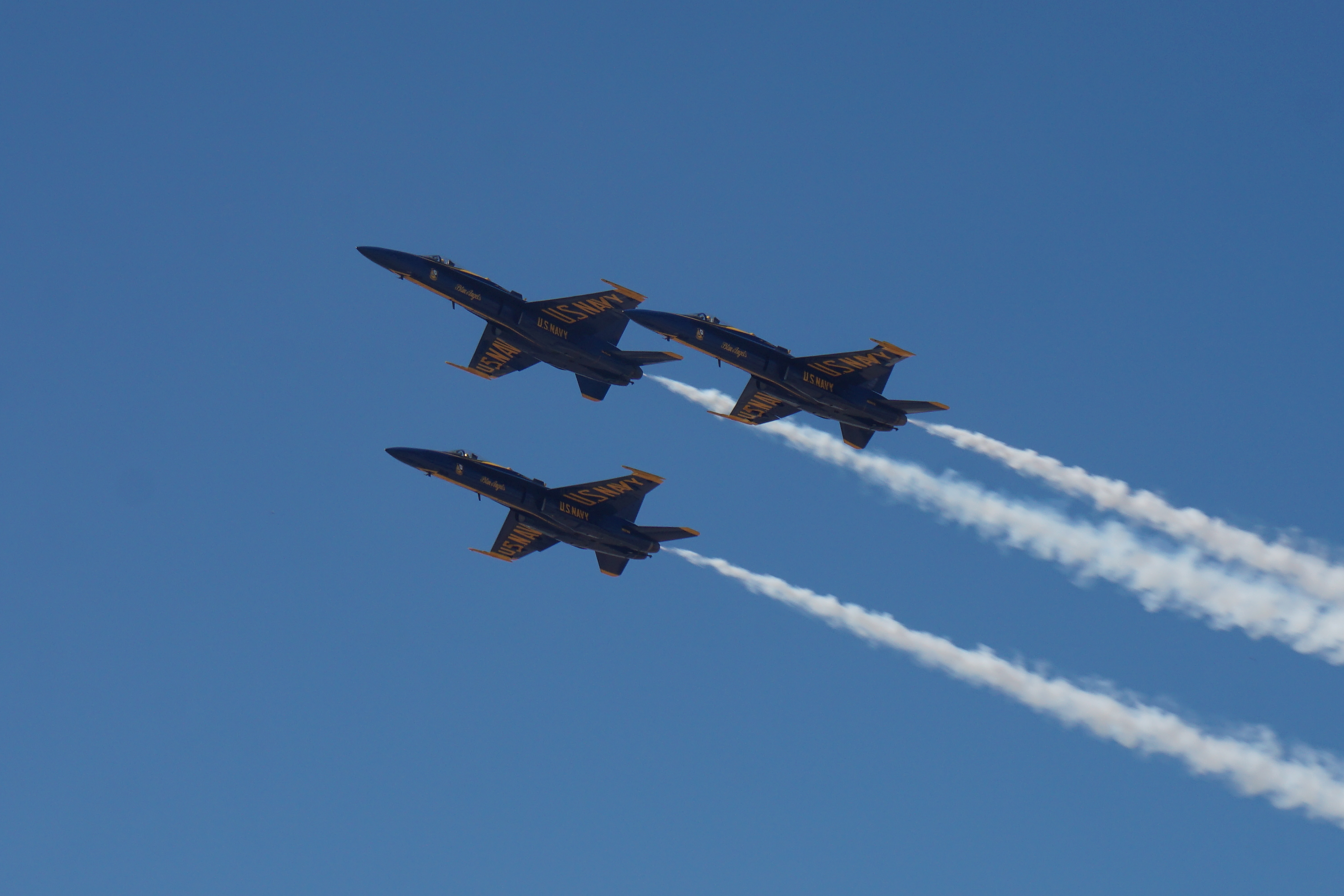 The Blue Angels at the 2019 Fort Worth Alliance Air Show at Fort Worth Alliance Airport in Fort Worth, Texas (United States).